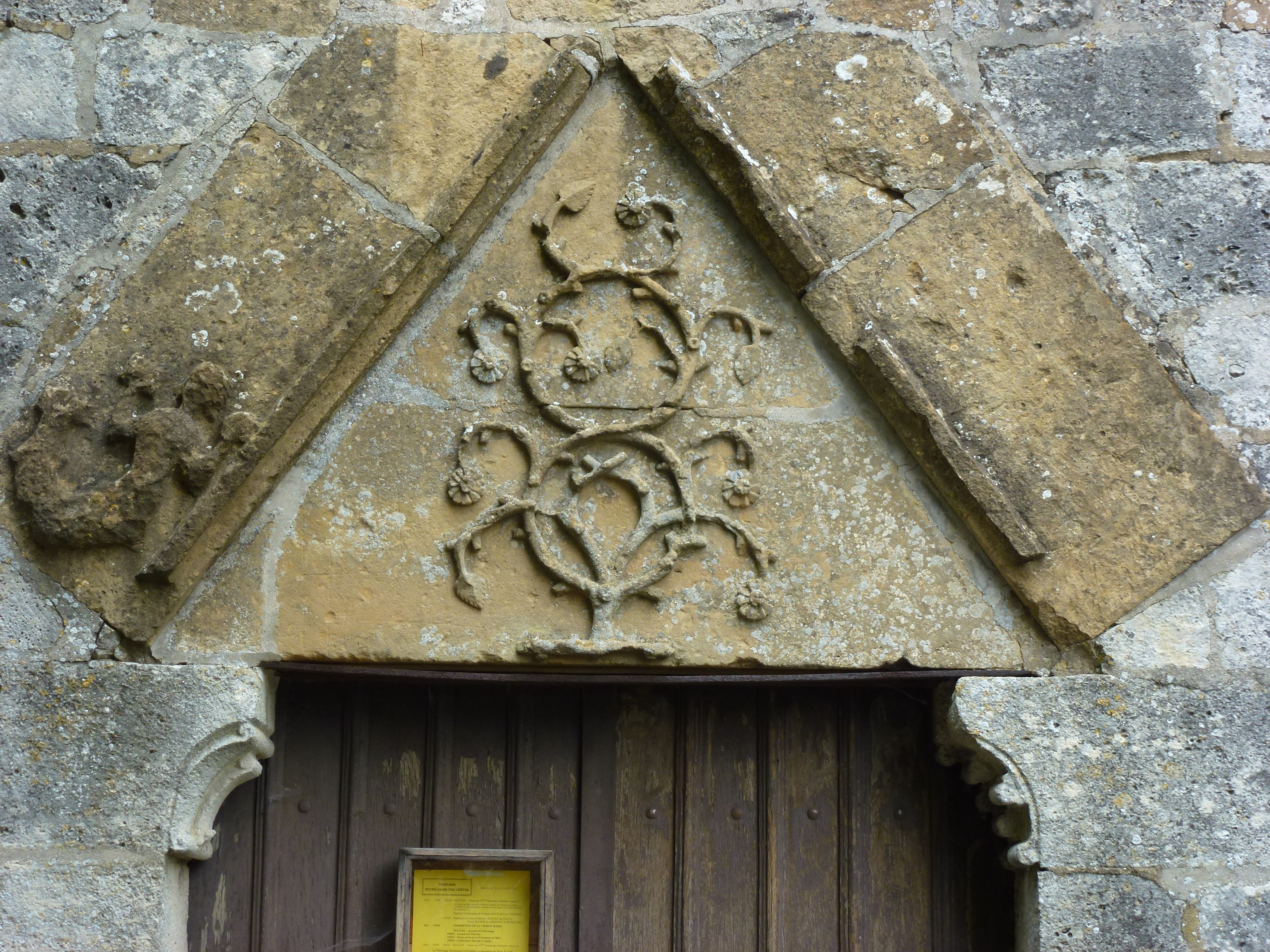 Raillicourt (Ardennes) église Saint-Martin .